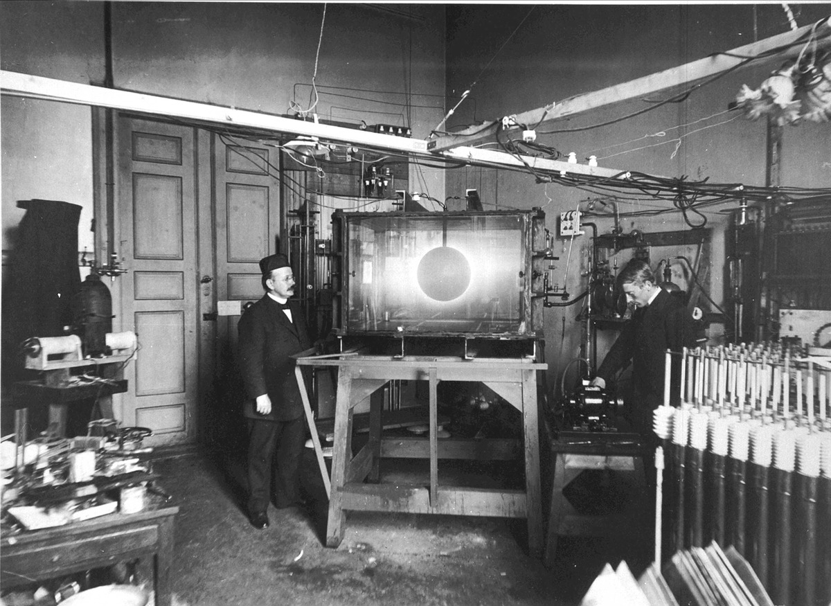 Photography of the physicists Kristian Birkeland (left) and Olaf Devik (right) in the laboratory around the vacuum chamber conducting the Terrella experiment.